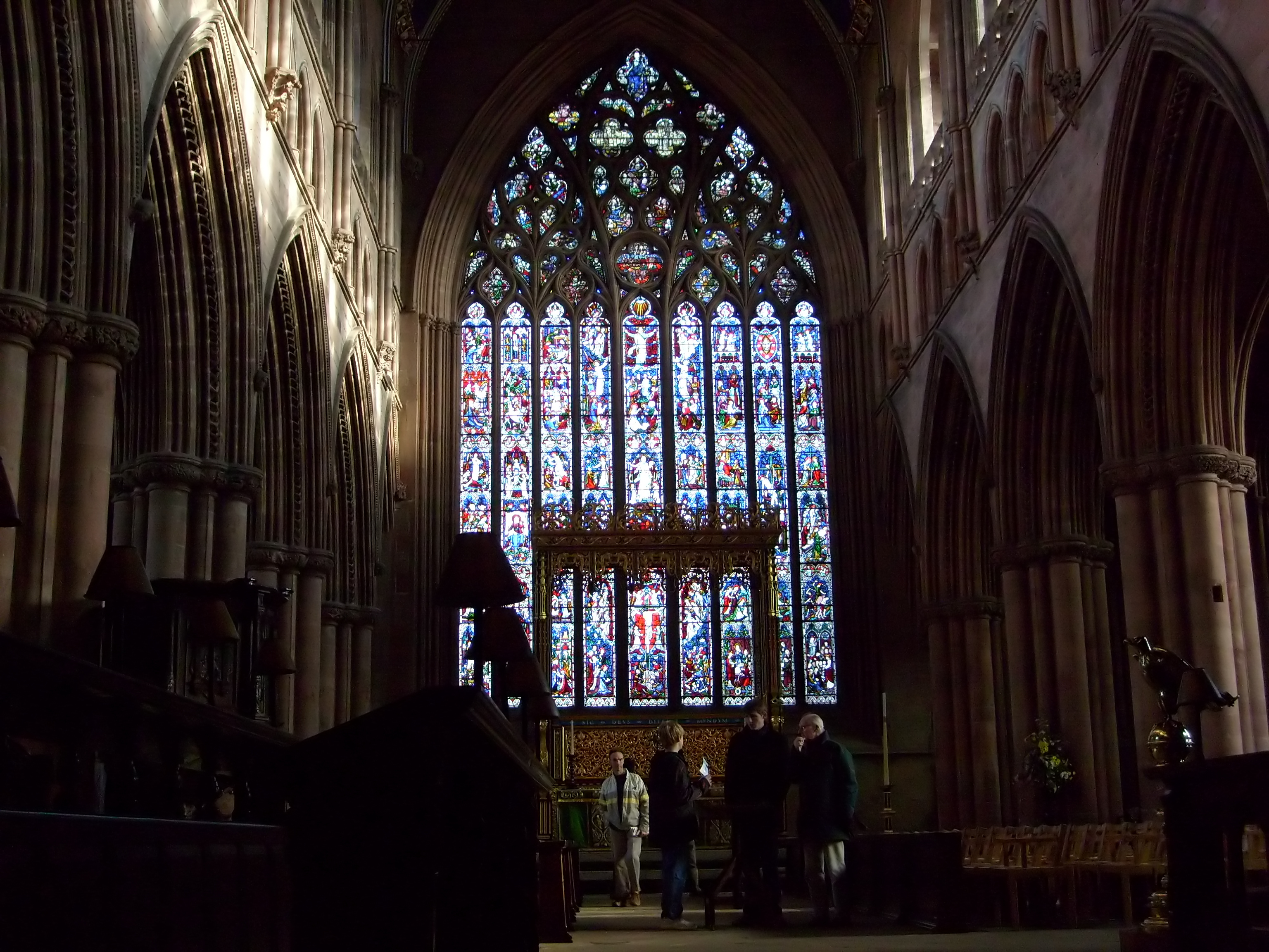 East window in Carlisle Cathedral